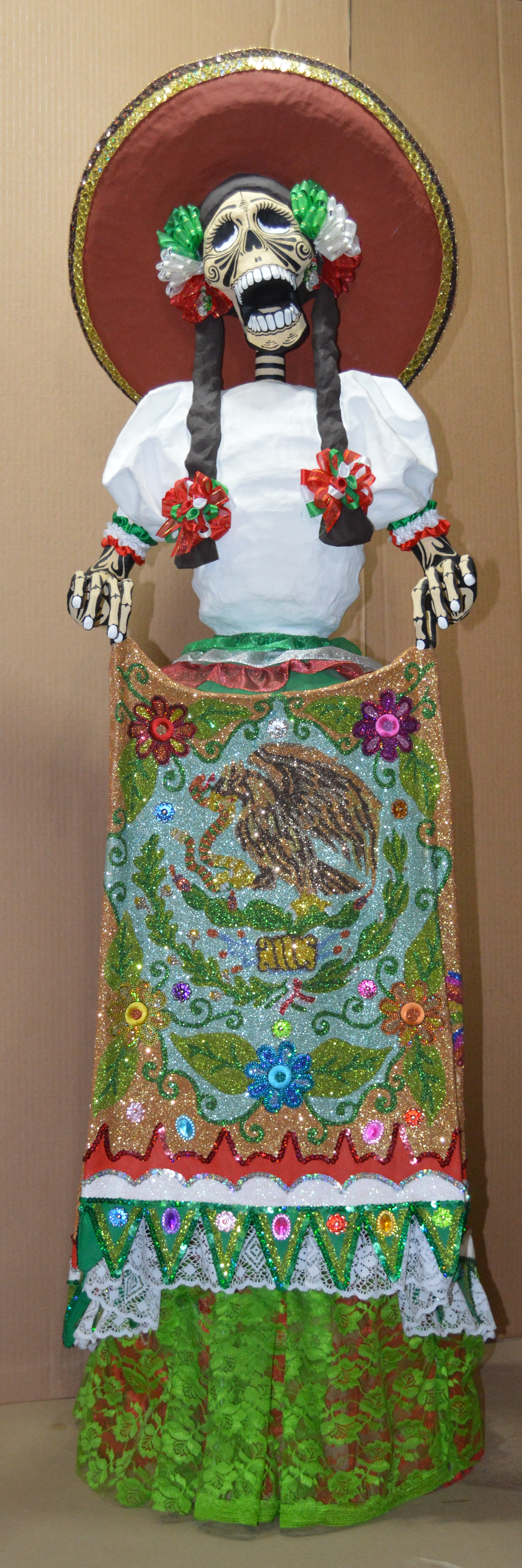 Skeletal figure of cartonería of the China Poblana by Rodofo Villena Hernandez taken at his workshop in Puebla, Mexico